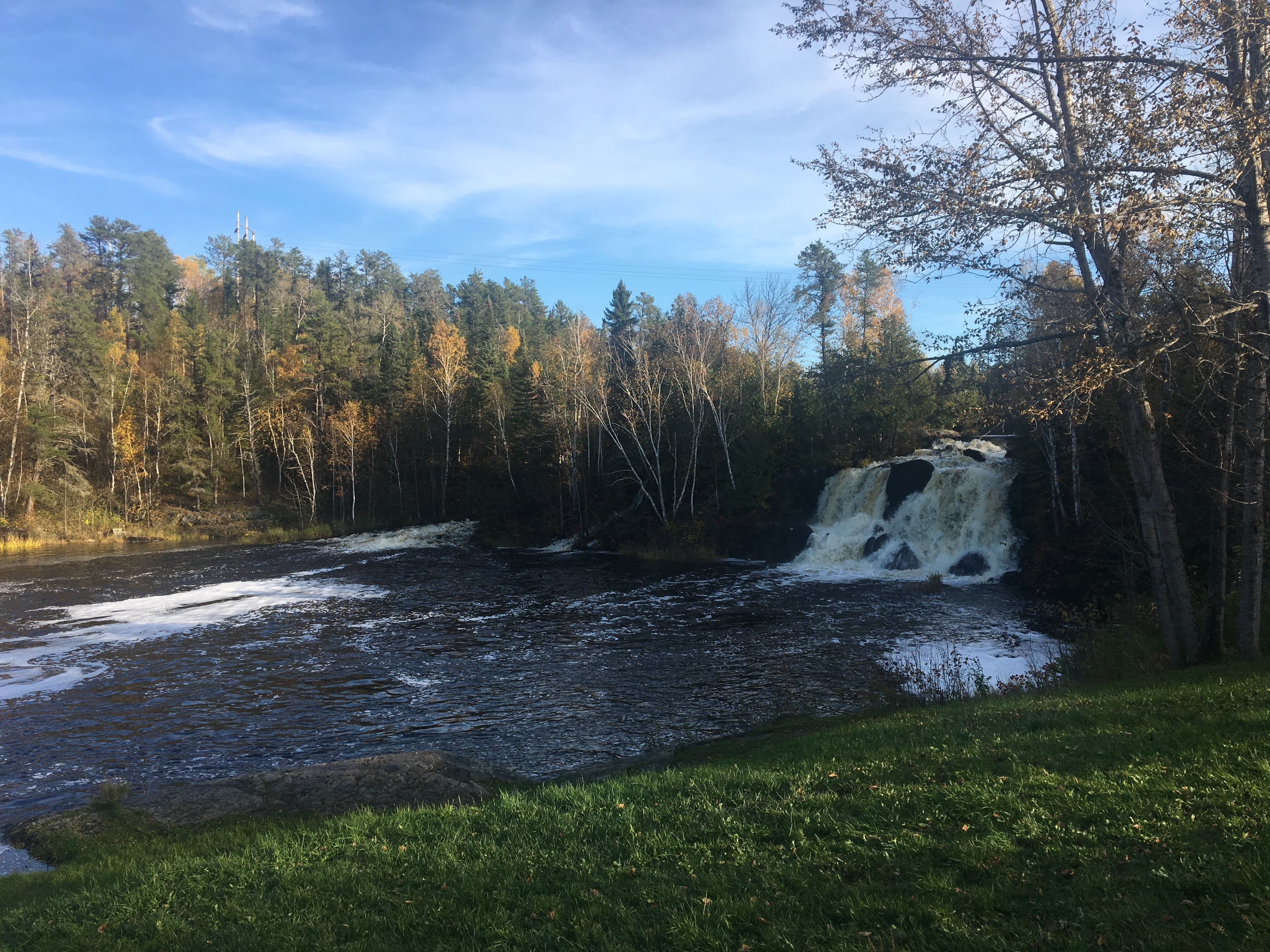 Little Falls Waterfall, located within Atikokan on the Eastern edge of town limits.